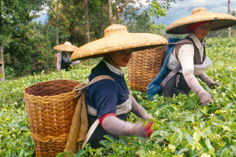 They knew we were coming. "Come here, Mister" in perfect English. After taking some shots, they asked for tips, I gave them $2. EOS-1N HS, EF 28-135mm f/3.5-4.5, Kodak EBX